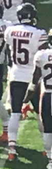 Josh Bellamy in 2018